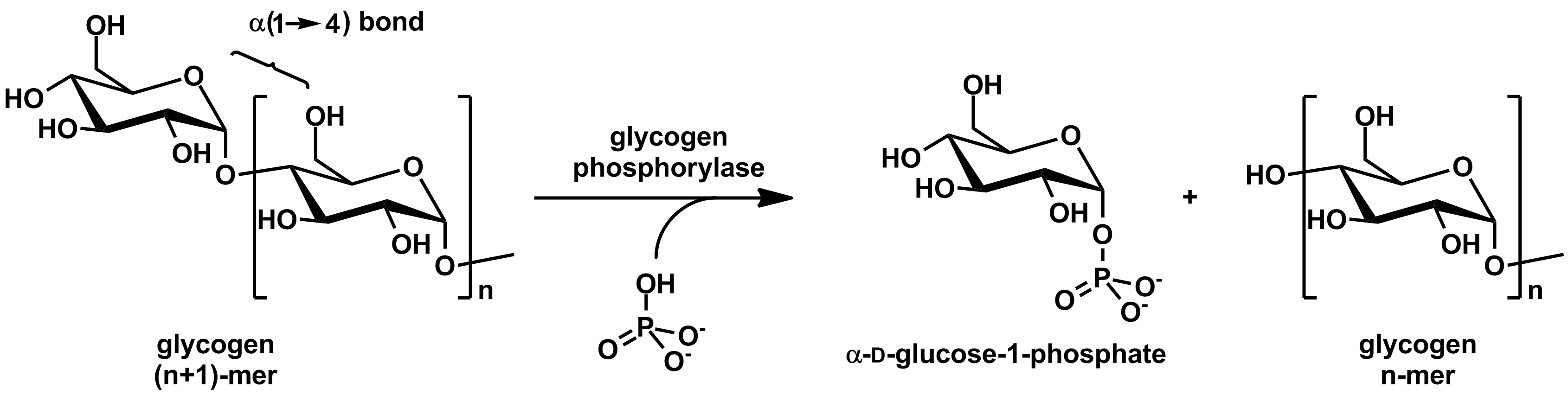 Action of glycogen phosphorylase on glycogen (source: D. Voet and J. G. Voet. Biochemistry, Wiley, 2011, p. 641).